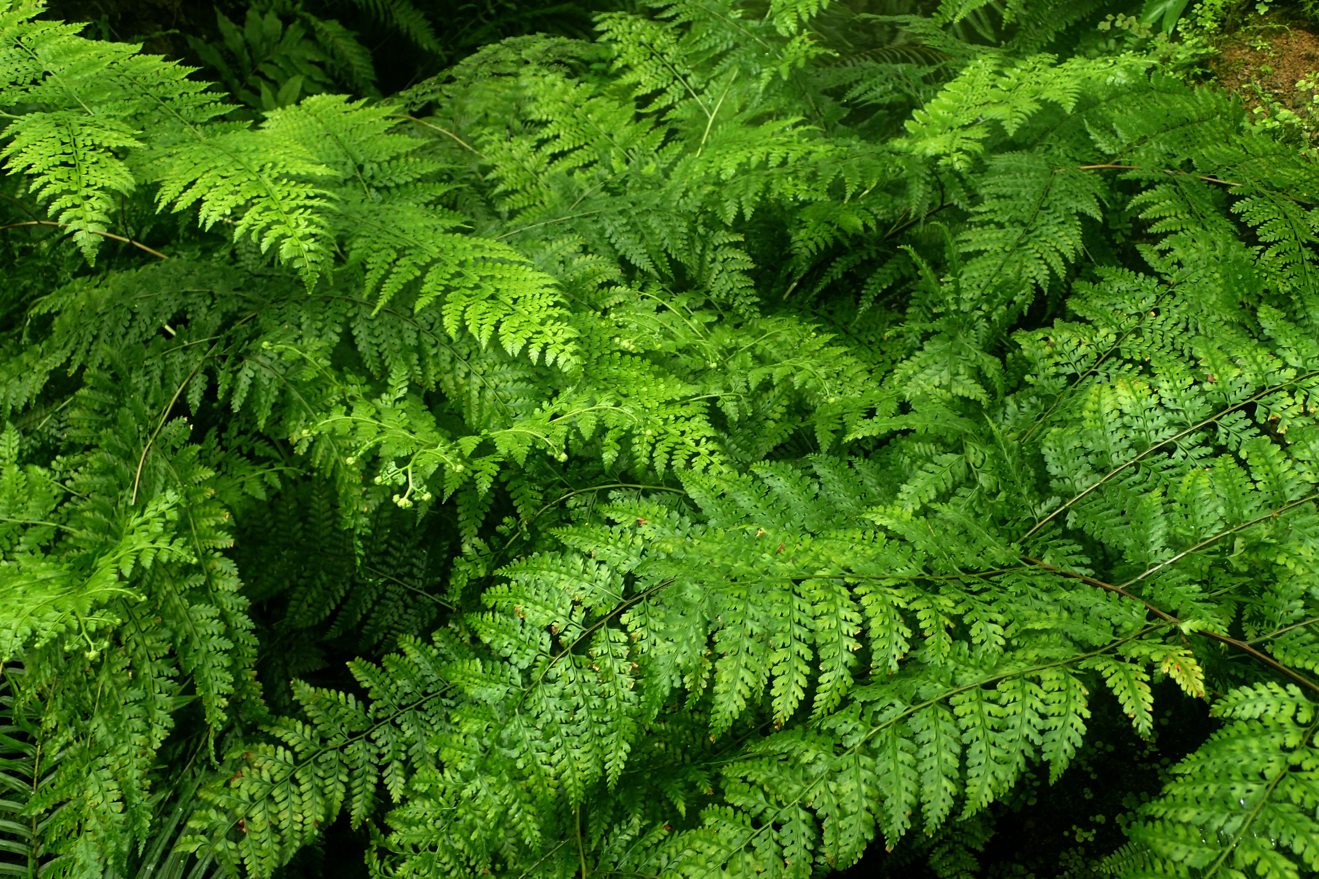 Rumohra adiantiformis at Garfield Park Conservatory